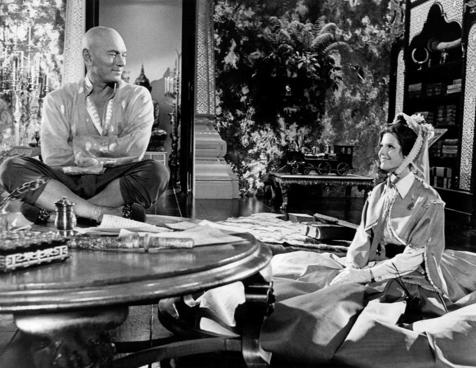 Photo of Yul Brynner and Samantha Eggar from the television program Anna and the King. Brynner portrayed the King of Siam in the stage and film versions also.